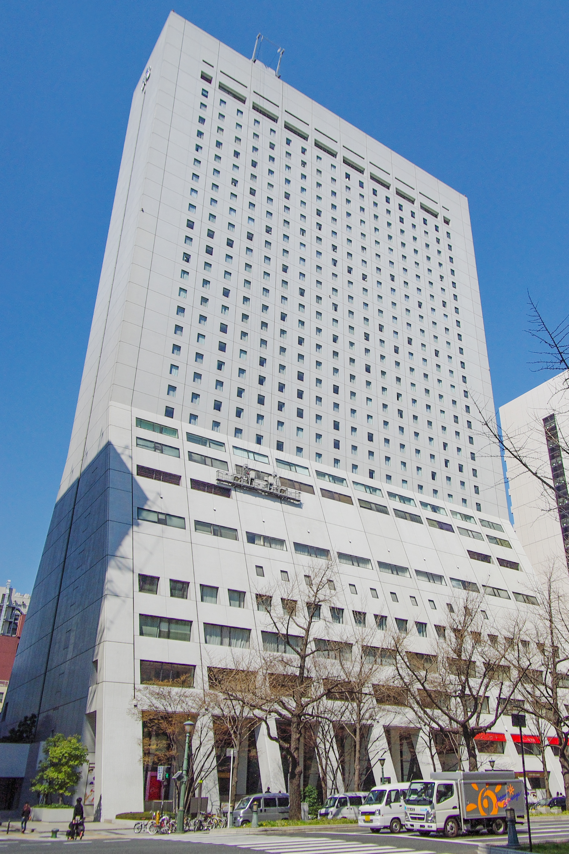 Photograph of Hotel Nikko Osaka in Chuo-ku, Osaka, Osaka Prefecture, Japan.